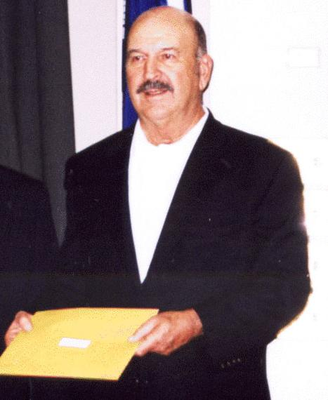 Photo of former Louisiana Governor Mike Foster